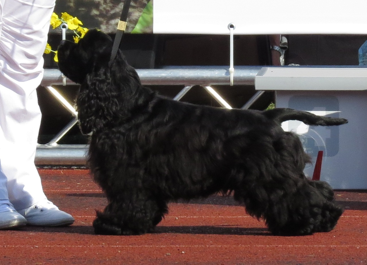 American Cocker Spaniel in Tallinn duo CACIB, 17-18 Aug 2013, handler competition